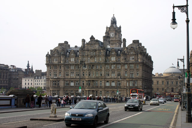 The Balmoral Hotel (known as the North British Hotel until the late 1980s) is ituated at the southern end of Edinburgh's North Bridge, on the junction with Princes Street. The Balmoral Hotel is now part of the Rocco Forte Hotel Group.